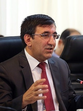 Turkish politician Cevdet Yılmaz)